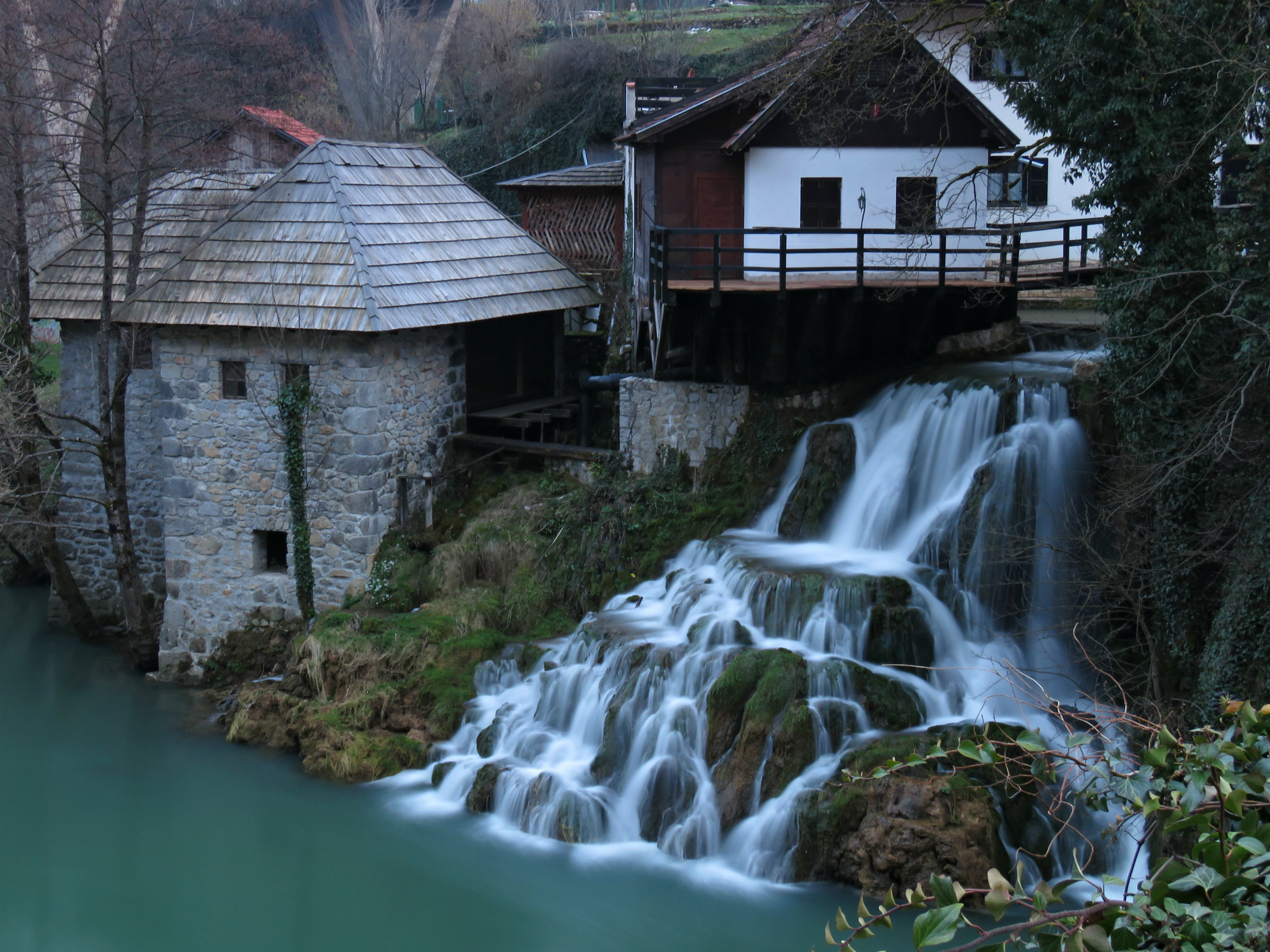 Enjoy in a small waterfall in a little magical place Rastoke in Croatia ;o). This is a a photo of a natural area in Croatia with ID: SL01